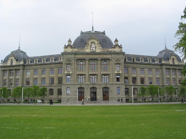 University of Berne, Switzerland